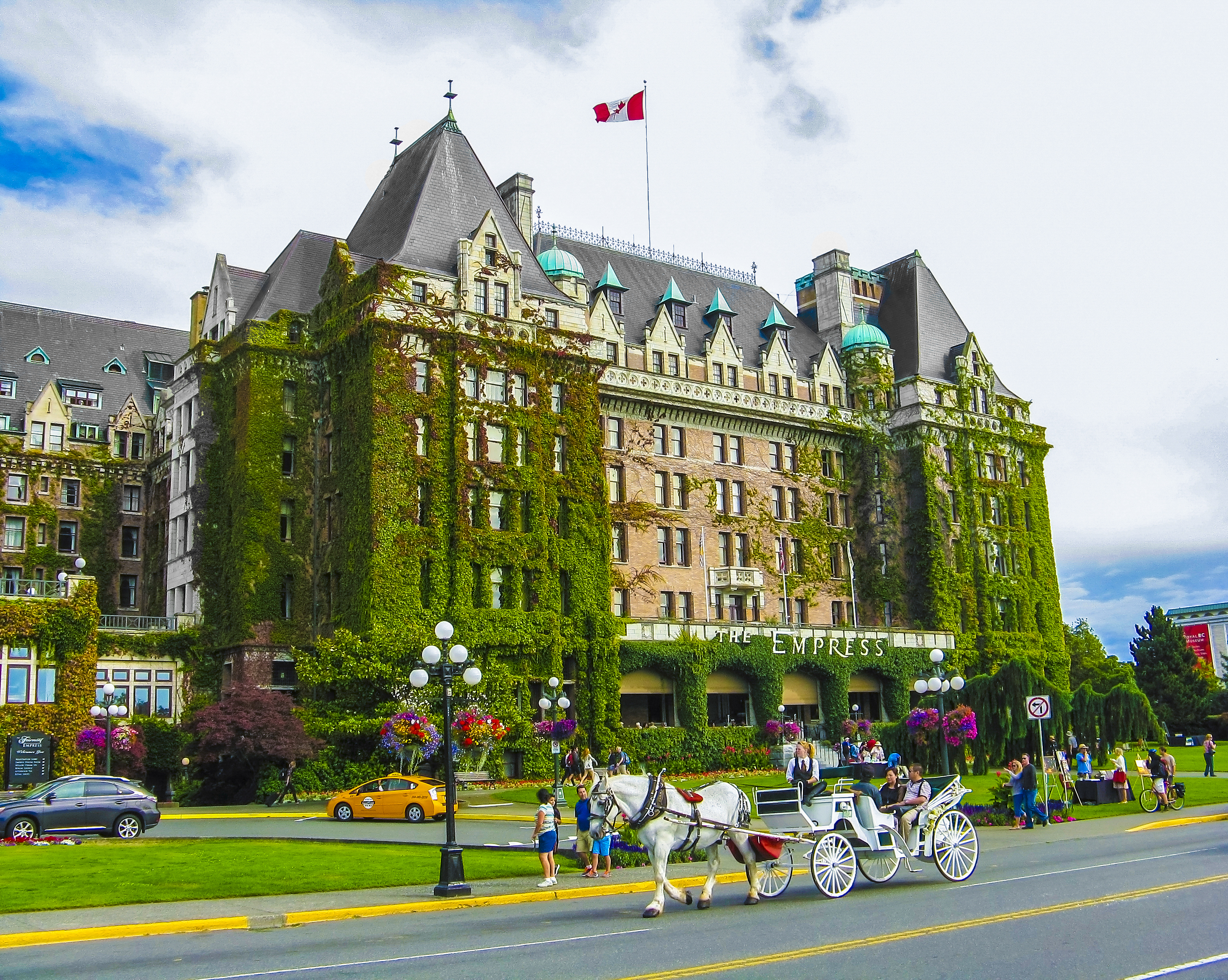 The magnificent Empress hotel in Victoria, British Columbia